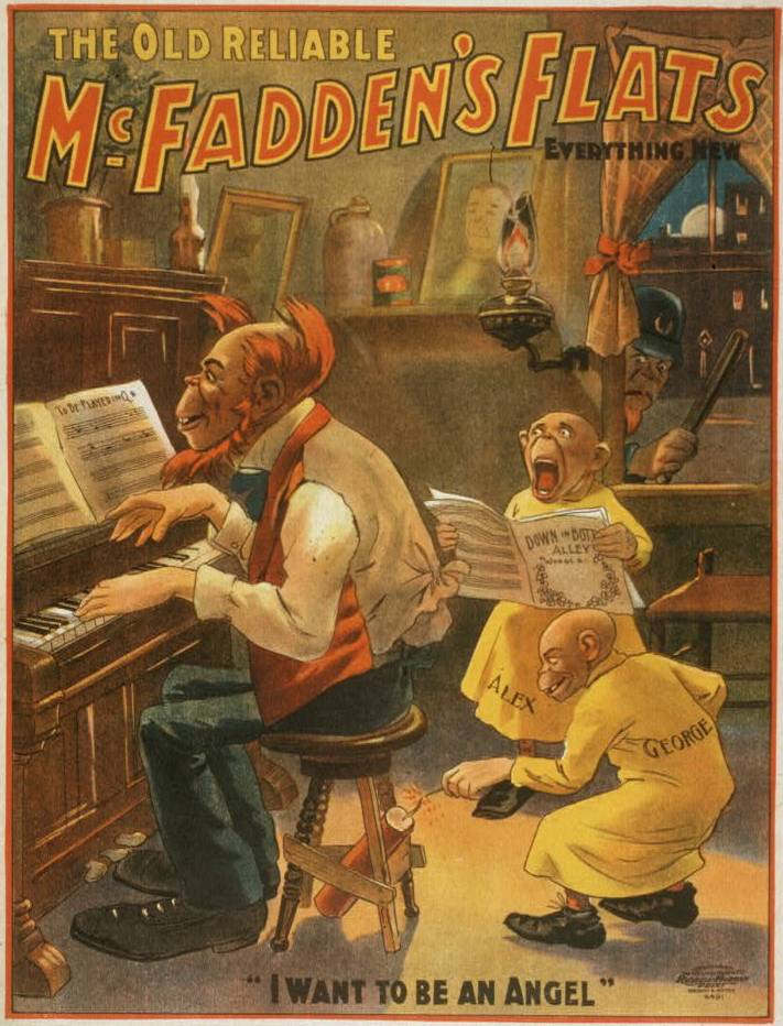 Poster c. 1902 for the vaudeville play McFadden's Flats by Gus Hill. From the Library of Congress Prints and Photographs Division Washington, D.C. "copyright 1902 by The U.S. Lithograph Co., Russell-Morgan Print, Cincinnati & New York."